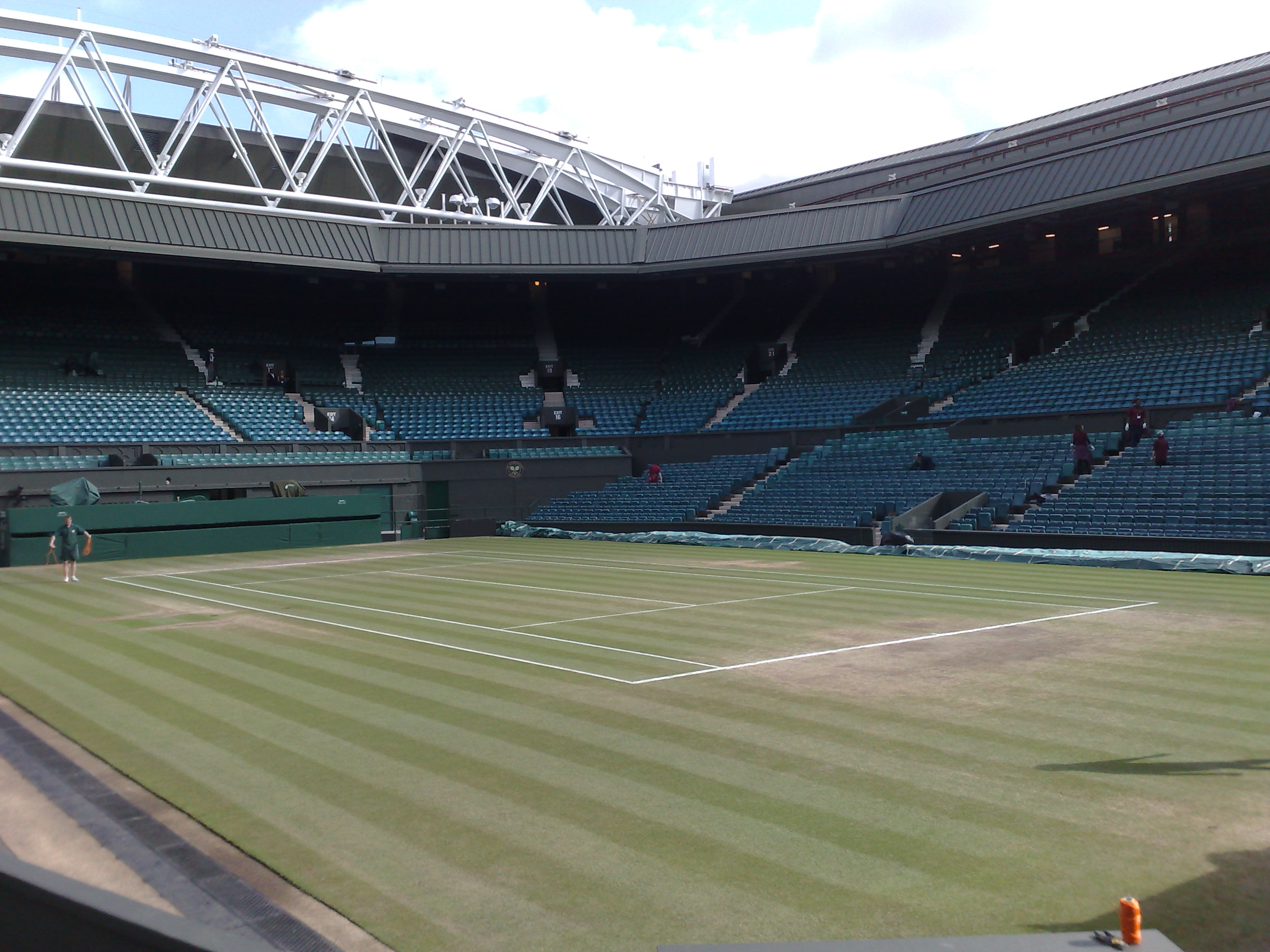 Camera phone upload powered by ShoZu